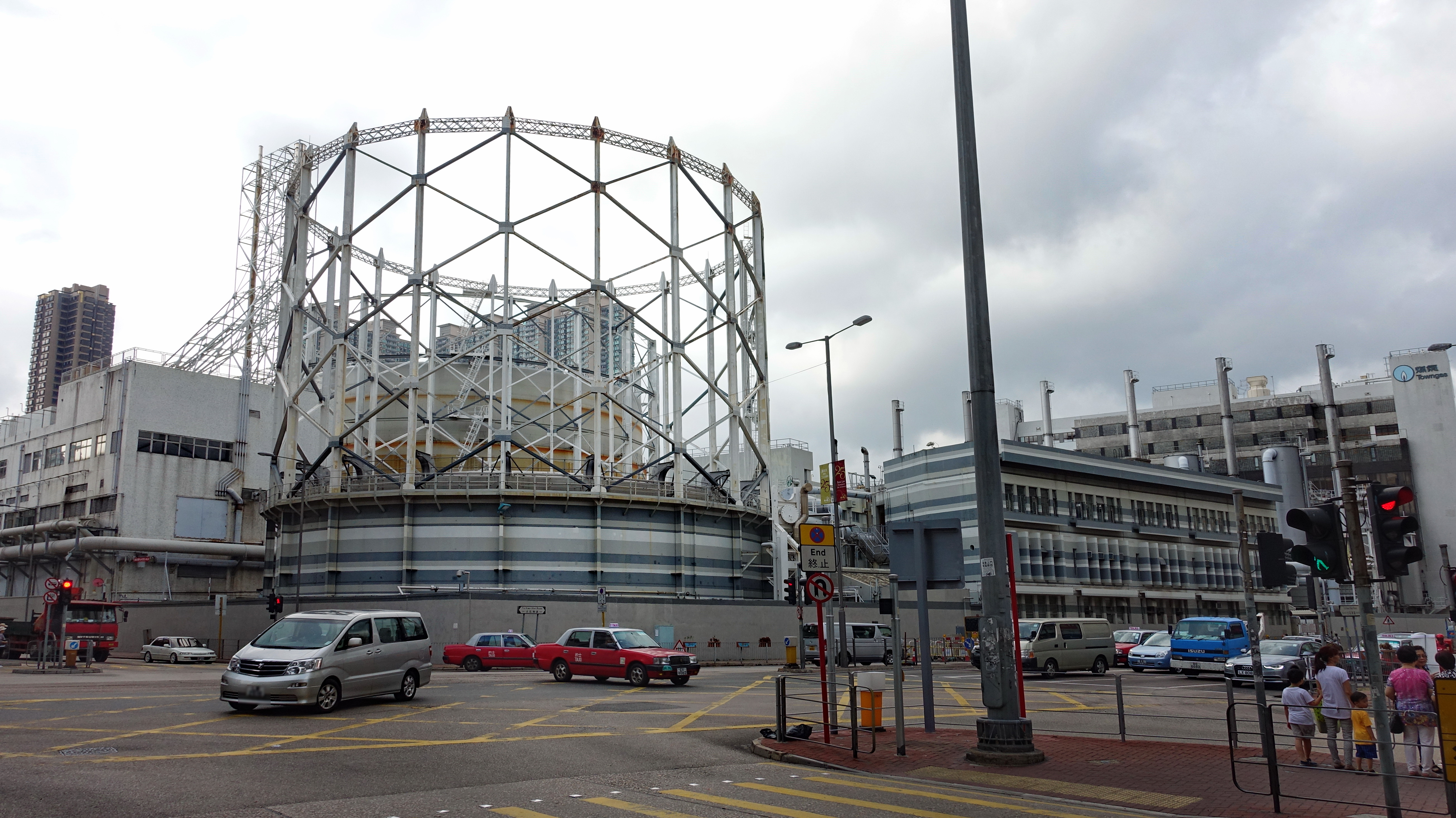 Gasholder (gasometer) of the Hong Kong and China Gas Company Limited, Ma Tau Kok, Kowloon, Hong Kong.